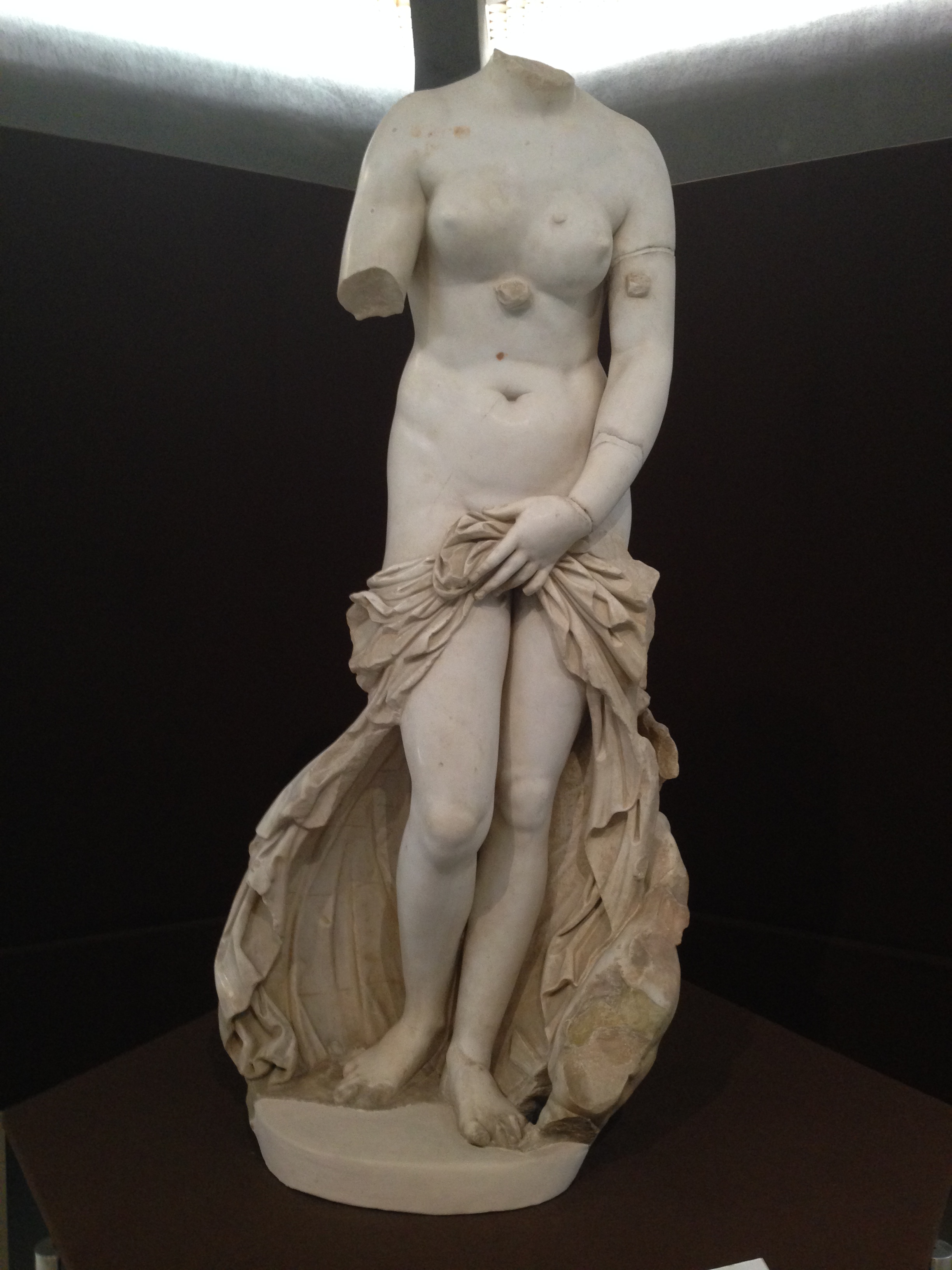 The Venus Pudica in the Regional Archaeological Museum in Siracusa, Italy, also known as "Venus Landolina" after his discoverer in 1804, archaeologist Saverio Landolina. Aphrodite is depicted standing, nude save for a richly draped himation which she retains with her left hand in front of her pudenda. Roman copy made in the 2nd century AD after a Greek original.